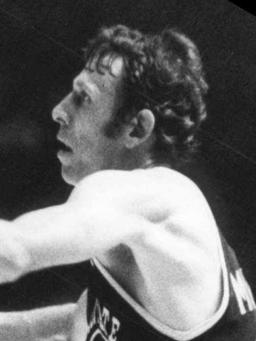 Professional basketball player Jeff Mullins